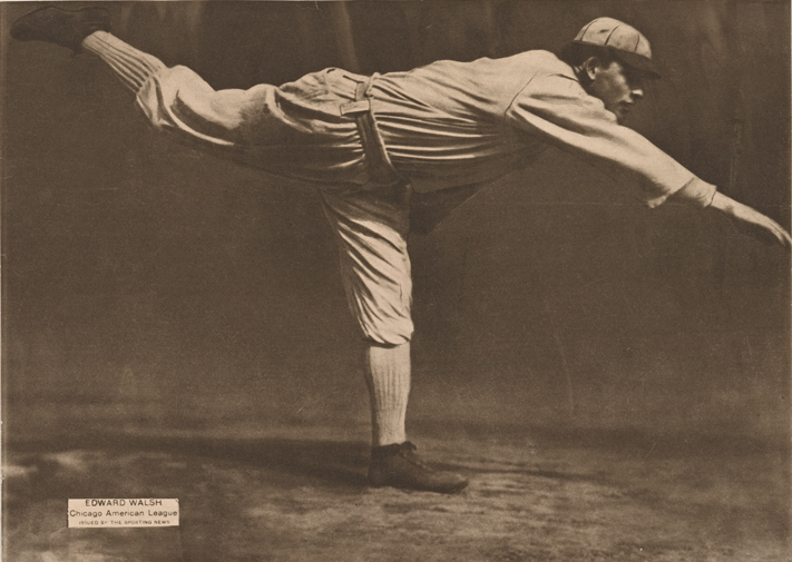 Title Edward Walsh, Chicago American League Collection Leopold Morse Goulston baseball collection in memory of Leo J. Bondy. Individual portraits, Sporting news. Dates / Origin Date Created: 1880 - 1910 Place Term: [v.p.] Date Issued: 1909-09-09 Library locations George Arents Collection Shelf locator: Arents Goulston Baseball Collection Topics Baseball players Portraits Walsh, Ed, 1881-1959 Notes Content : The album of cards from the Leopold Morse Goulston collection contains several series of tobacco trade cards, including those issued with Old Judge Cigarettes (n.d.), Mayo Cut Plug (n.d.), Hassan (1900-1919), Polar Bear (1900-1910), El Principe de Gales (1900-1910), Sovereign (1900-1919), and Sweet Caporal (1900-1910). Content: 1. Individual portraits, Old Judge, etc.--2. Misc. photographs, prints, score cards, etc.--3. Individual portraits, Sporting news.--4. Individual portraits, Sporting news.--5. Mounted cigarette portraits.--6. Misc. prints, photographs, score cards.--7. Large prints.--8. Misc. prints, photos, souvenir cards, centennial.--9. Misc. cartoons, prints, group portraits and sheet music.--10. Season passes designed by Charles Dana Gibson, 1930-31. Physical Description Extent: 10 boxes. Type of Resource Still image Identifiers NYPL catalog ID (B-number) : b15284006 Photo Order : 50743 UUID: c7546790-bcd0-0130-03e7-58d385a7bbd0 Rights Statement We believe that this item has no known US copyright restrictions. The item may be subject to rights of privacy, rights of publicity and other restrictions. Though not required, if you want to credit us as the source, please use the following statement, "From The New York Public Library." Doing so helps us track how our collection is used and helps justify freely releasing even more content in the future.